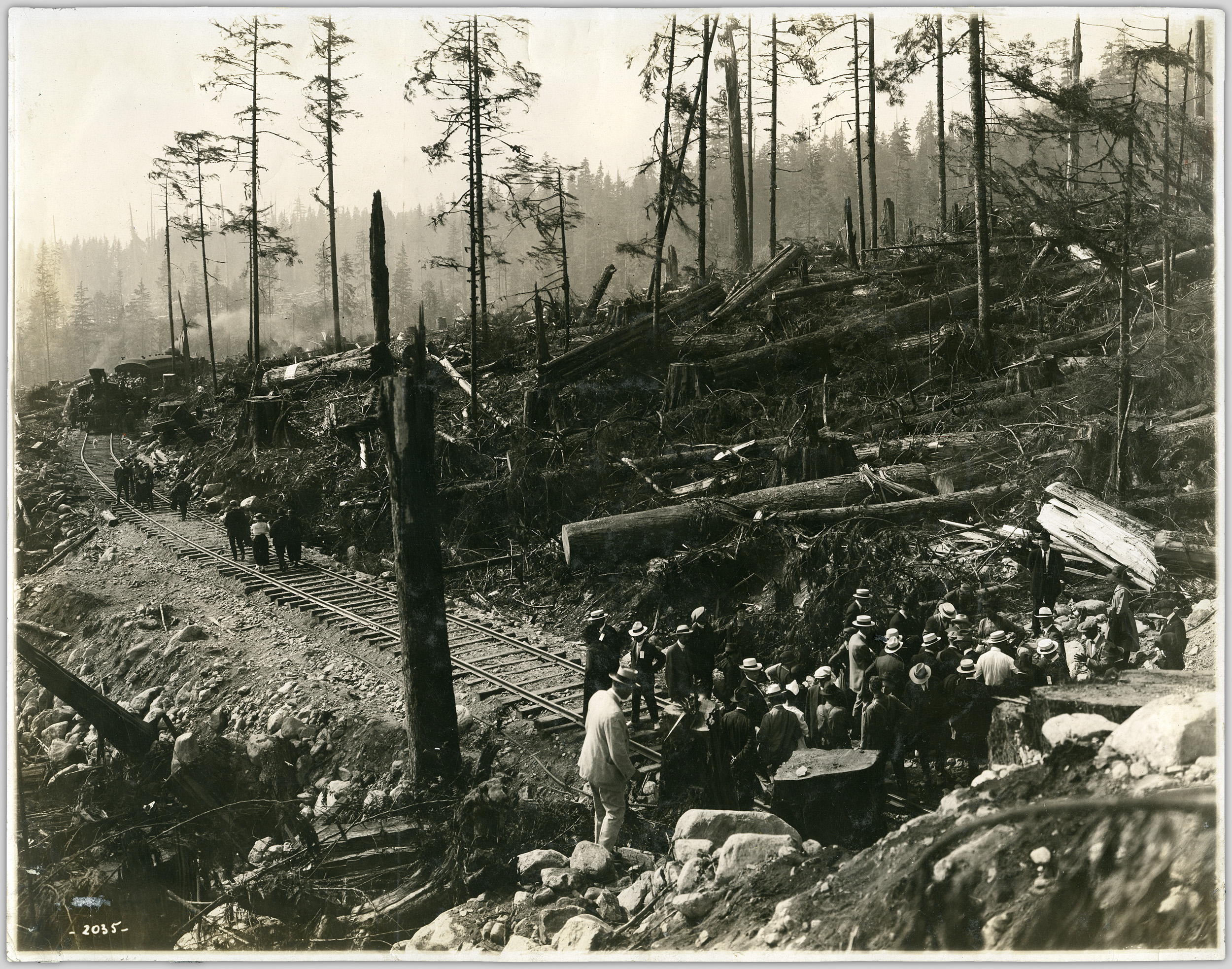 No known copyright restrictions. Please credit UBC Library as the image source. For more information, see Creator: [unknown] Date Created: 1919 Source: Original Format: University of British Columbia. Library. Rare Books and Special Collections. Capilano Timber Company fonds. Permanent URL